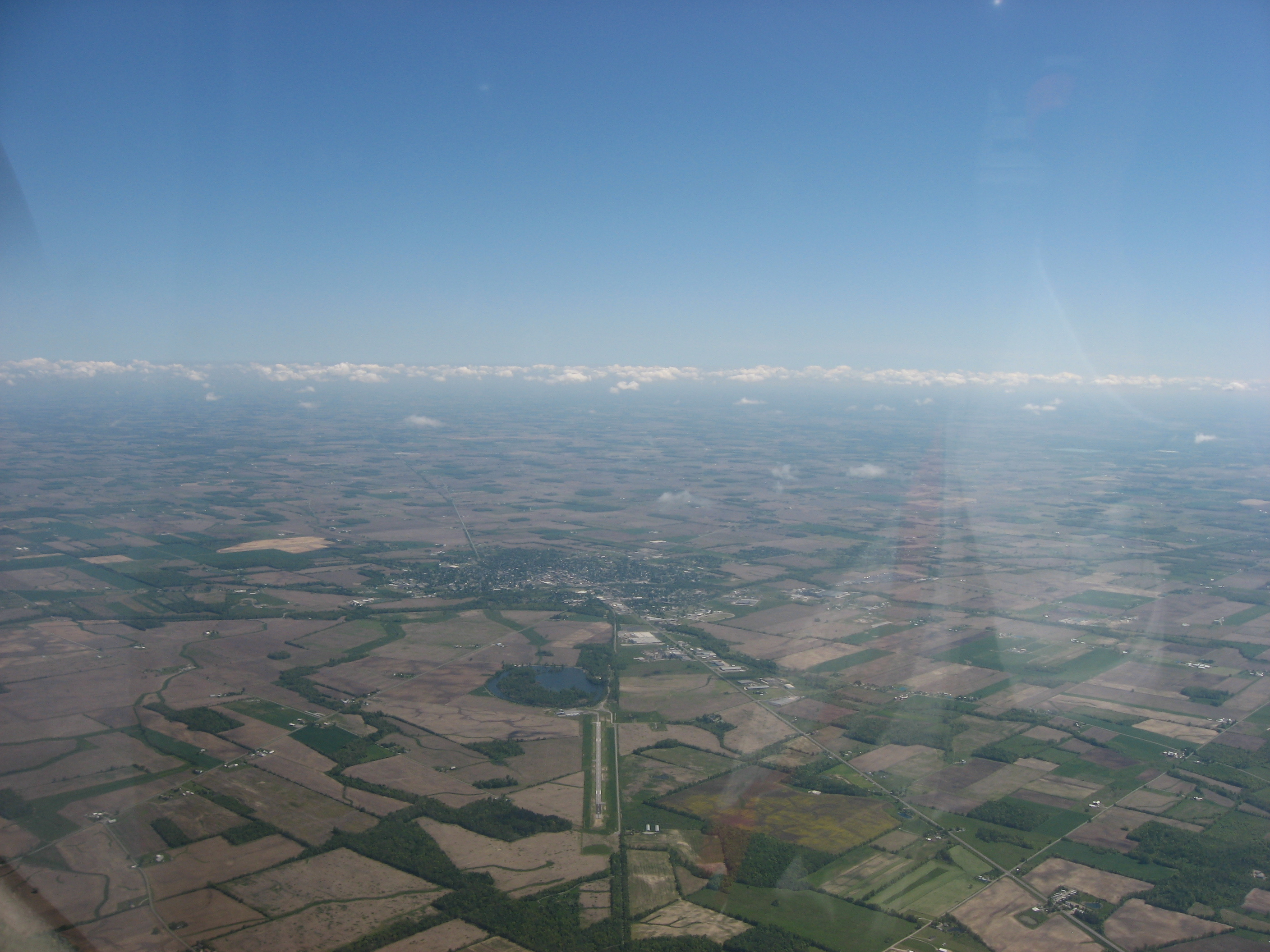 Aerial view of Kenton, a city in and the county seat of Hardin County, Ohio, United States. The Hardin County Airport is visible in the foreground, closer than the mass of the city (please pardon the reflections!). Picture taken from a Diamond Eclipse light airplane at an altitude of 7,200 feet MSL and a bearing of approximately 25º.